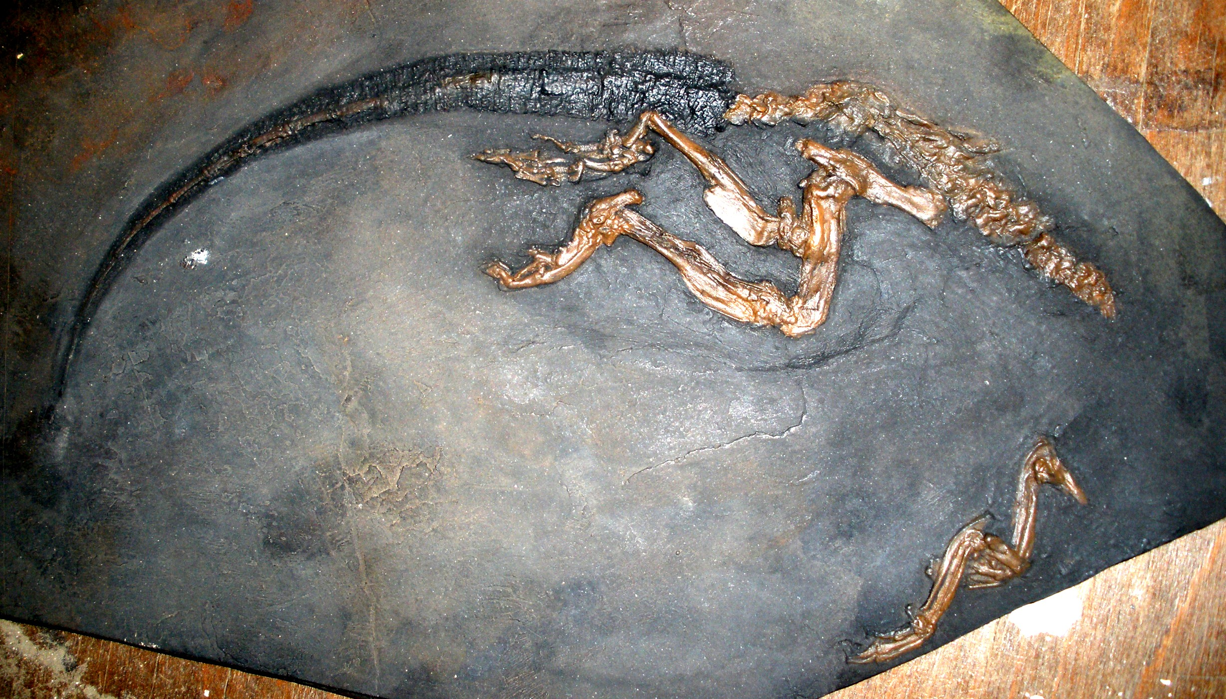 Fossil of Pholidocercus hassiacus, an extinct mammal Took the photo at Museo di Storia Naturale, Milano